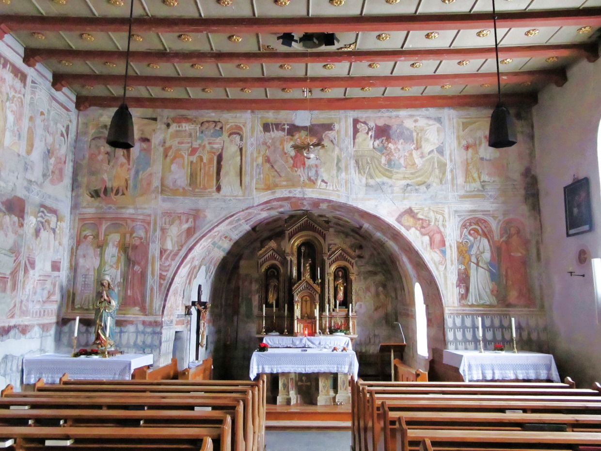 Village Durnholz in Valley Sarntal: Church St. Nikolaus (Sarntaler Alps)